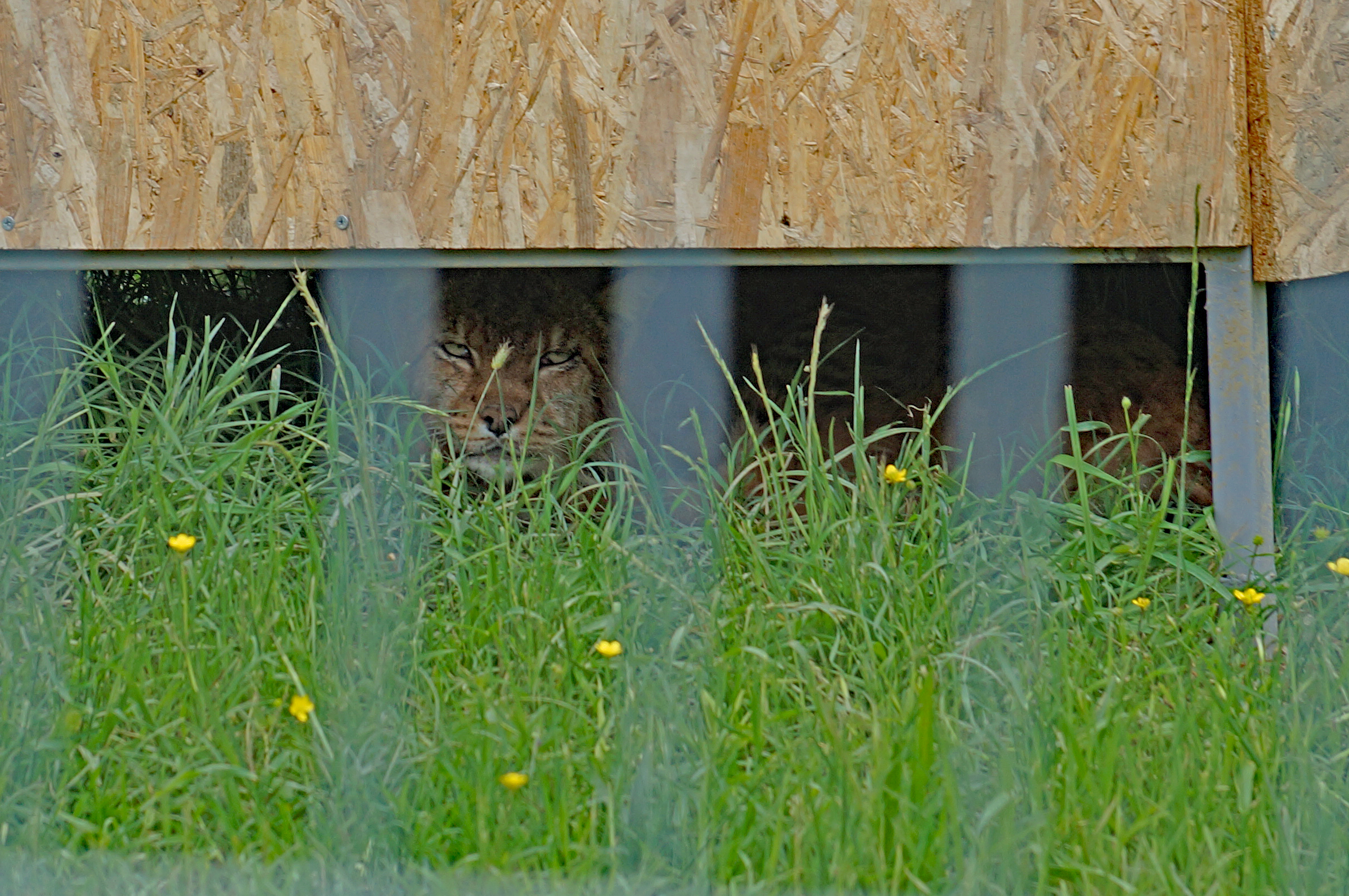 A Balkan Lynx in the Zoo of Tirana